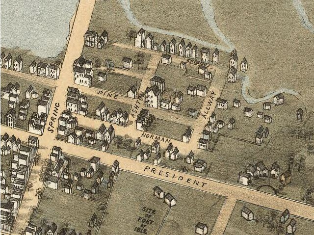 Gadsden Creek map in Charleston, South Carolina from 1888